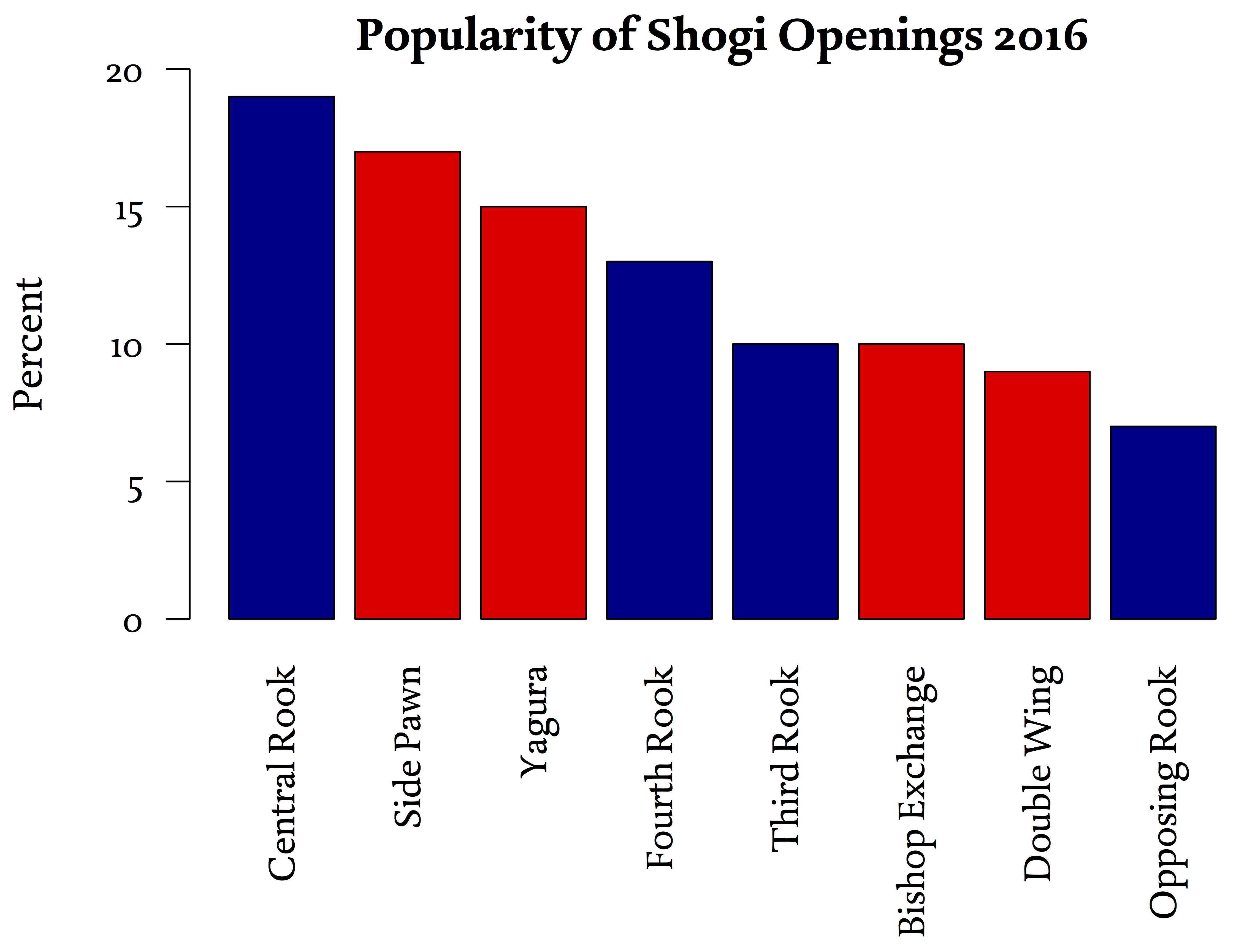 Popularity of major shogi openings in professional shogi games for the 2016 term.